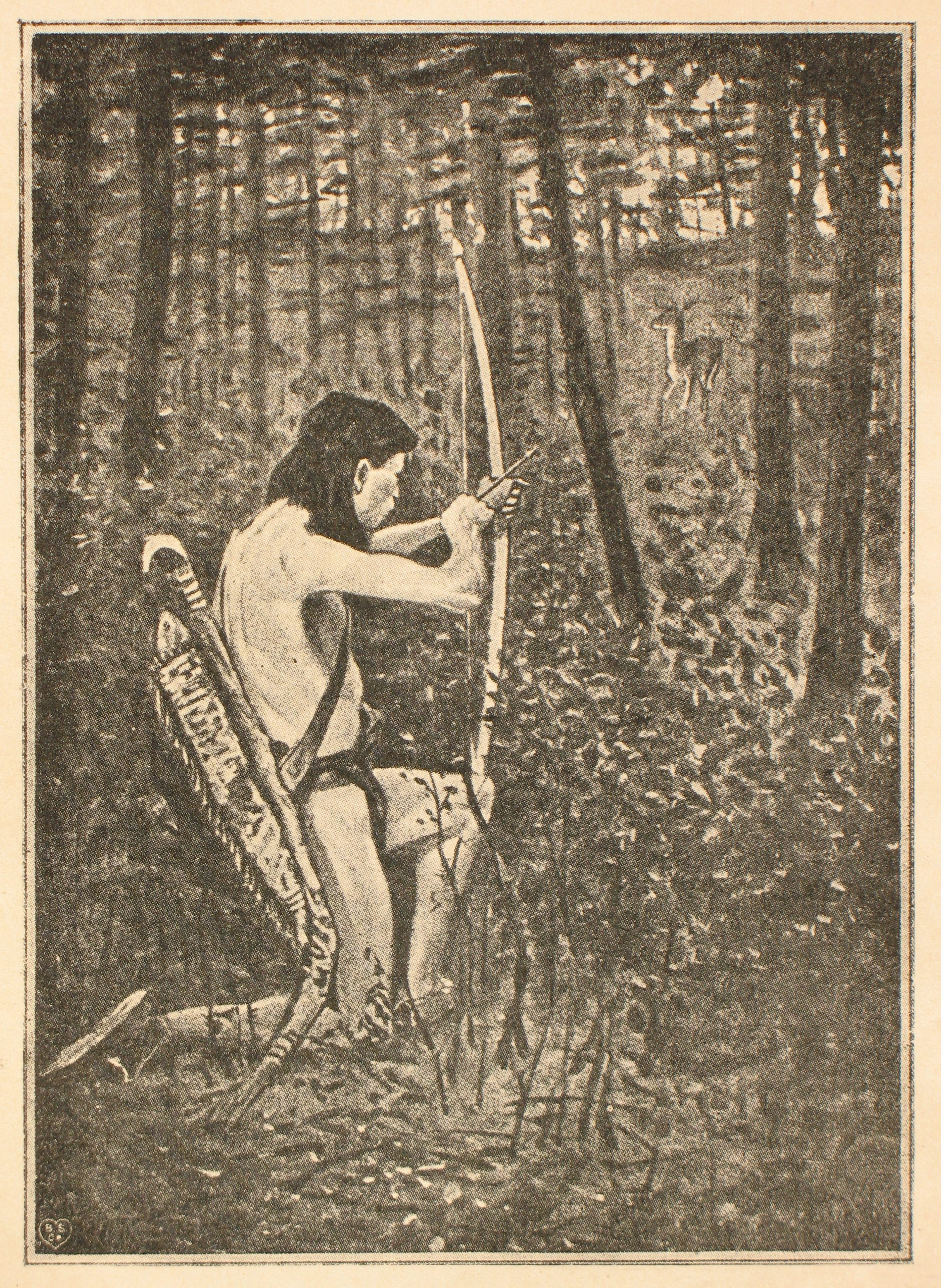 Henry Wadsworth Longfellow, The Song of Hiawatha, Moscow, 1931. Published by OGIZ.